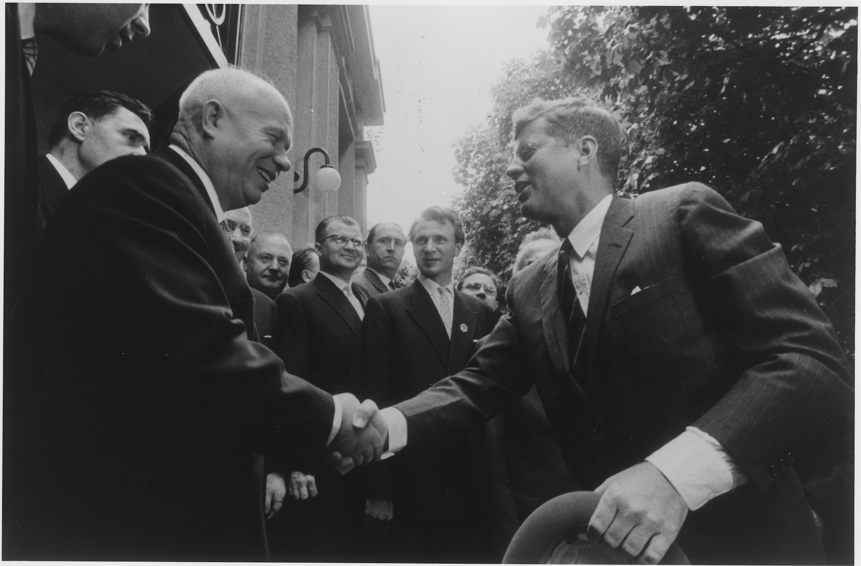 Scope and content: Photograph of President John F. Kennedy and Chairman Nikita Khrushchev during their meeting in Vienna, Austria.